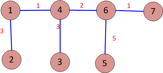 Step 9 for debug kruskal